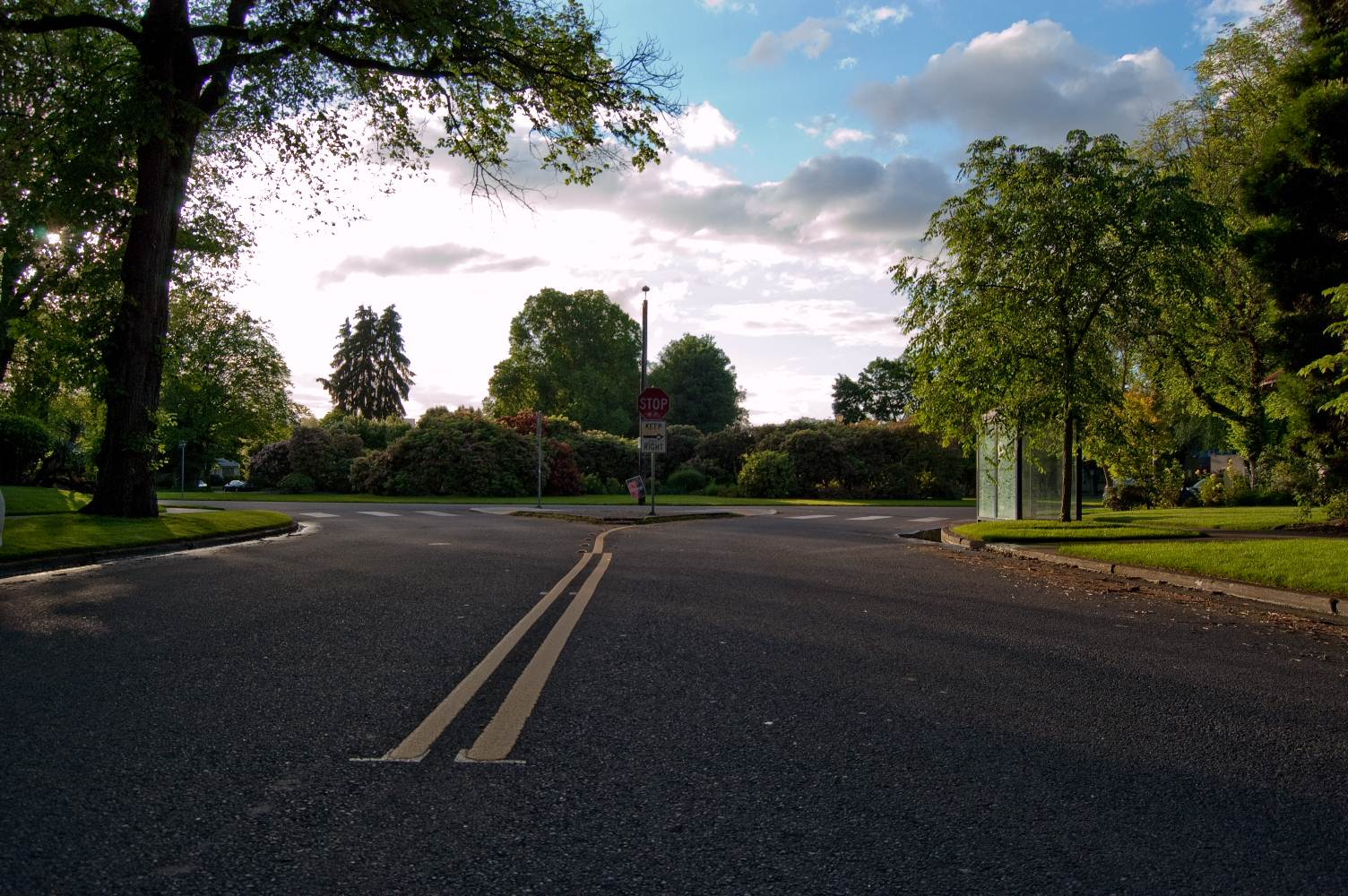 A view of the traffic circle in the middle of Ladd's Addition in Portland Oregon, looking northwest towards downtown.